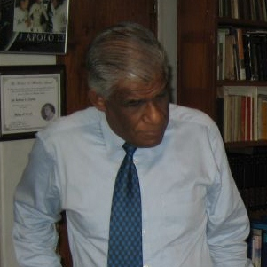 Professor V. K. Samaranayaka (1939-2007).